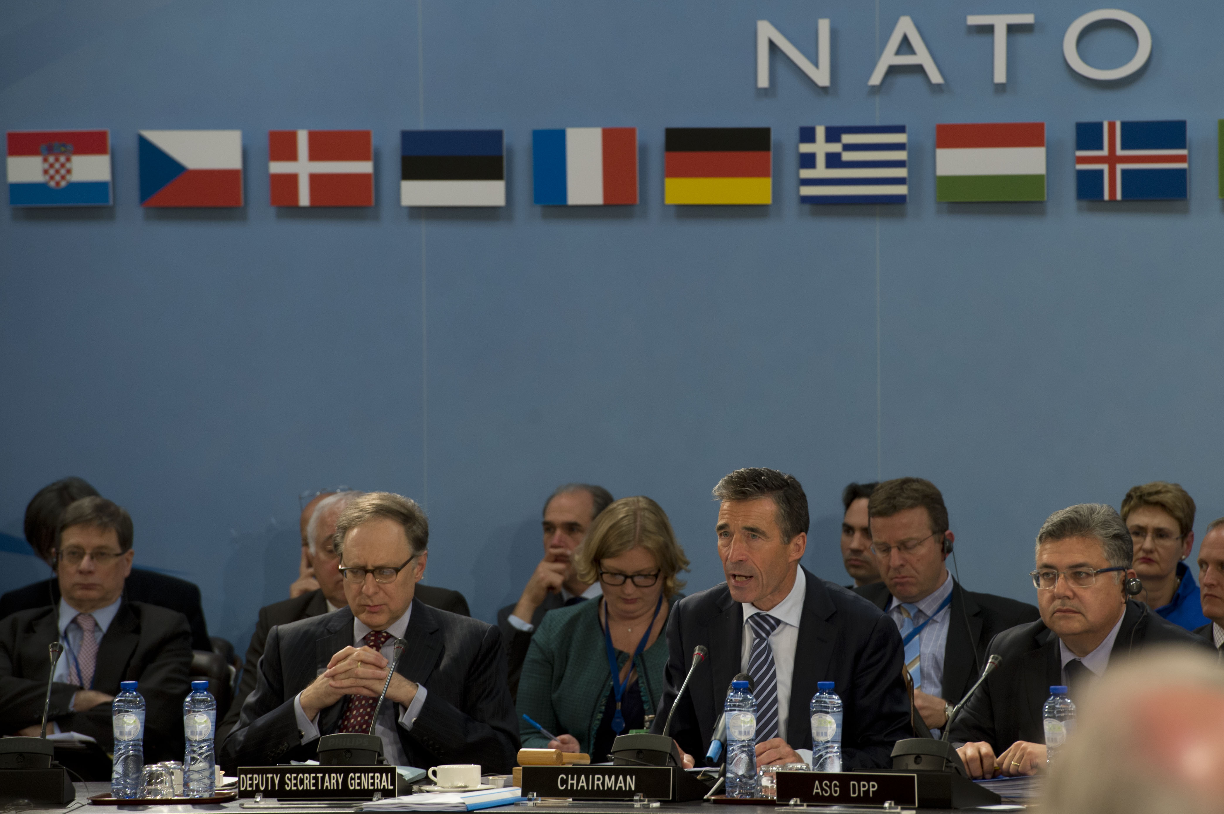 NATO Secretary General Anders Fogh Rasmussen, center right, speaks during a North Atlantic Council meeting at NATO headquarters in Brussels June 4, 2013. U.S. Secretary of Defense Chuck Hagel and other NATO leadership attended the meeting.